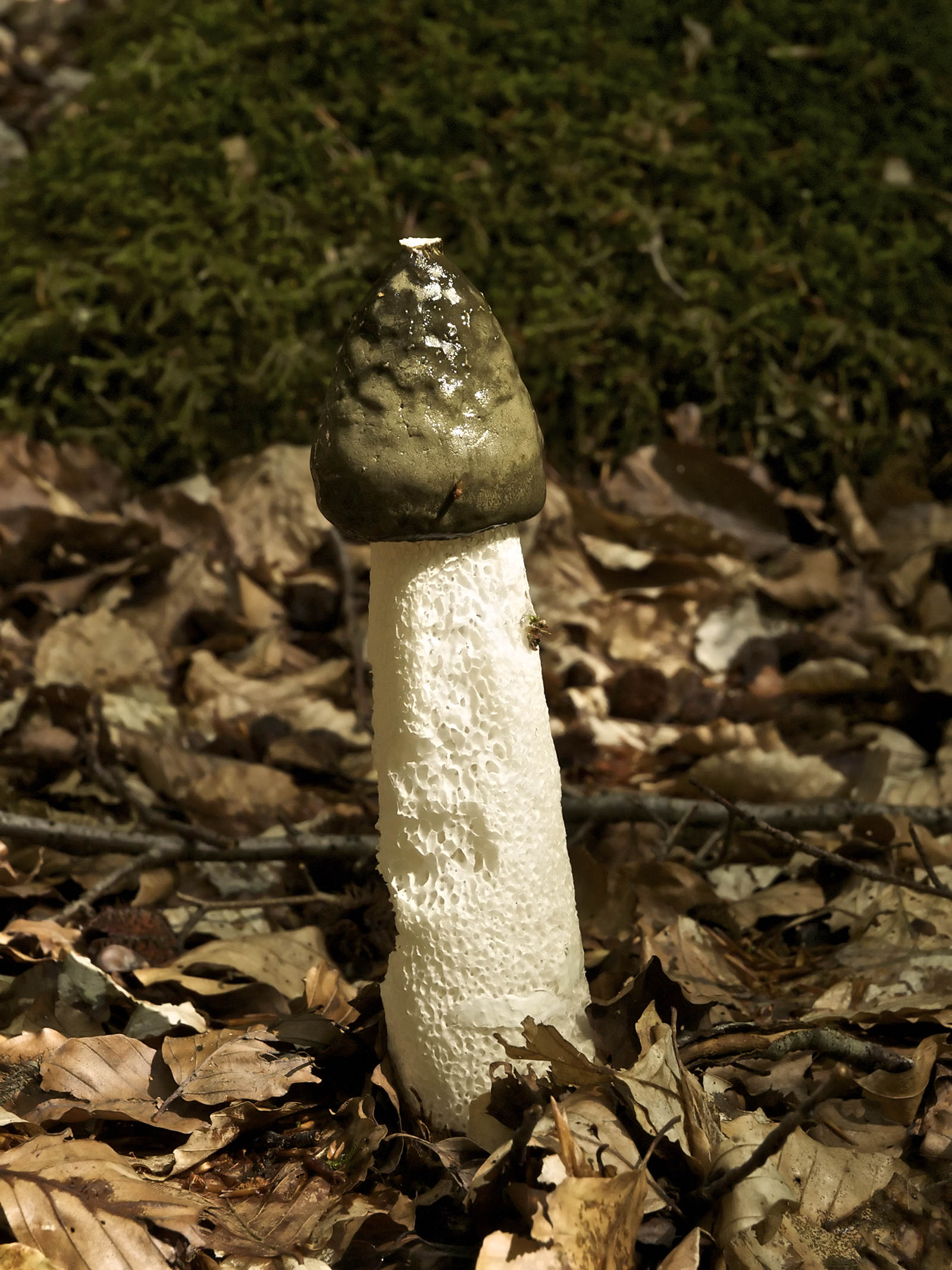 Common Stinkhorn (Phallus impudicus), Lake Åsnen. Sweden